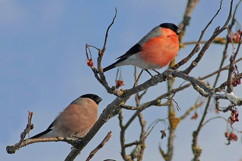 A pair of Eurasian Bullfinches perching in a tree in a garden in Germany.